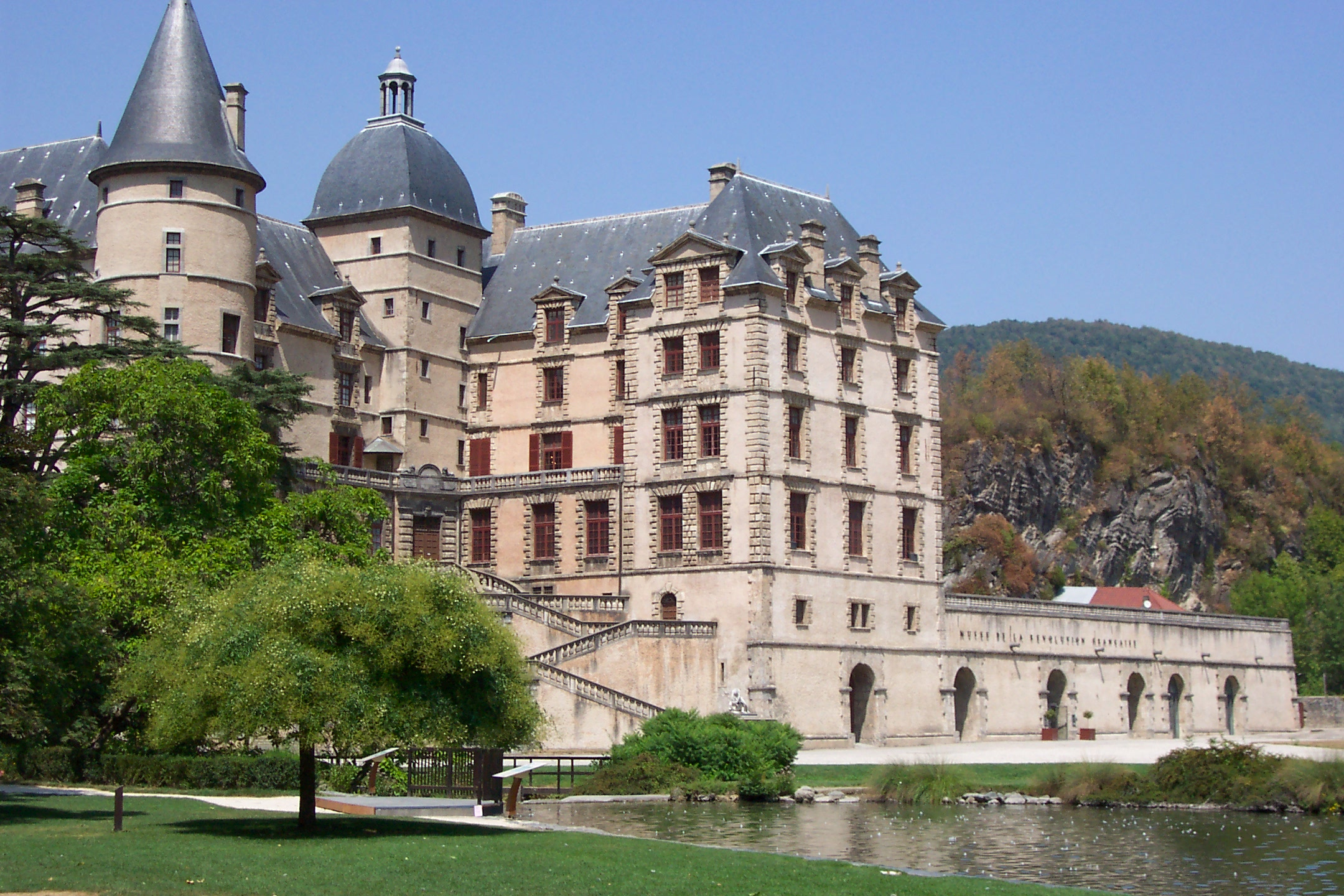 Photography of the Château de Vizille taken in August 2003 by Thomas Bigot.